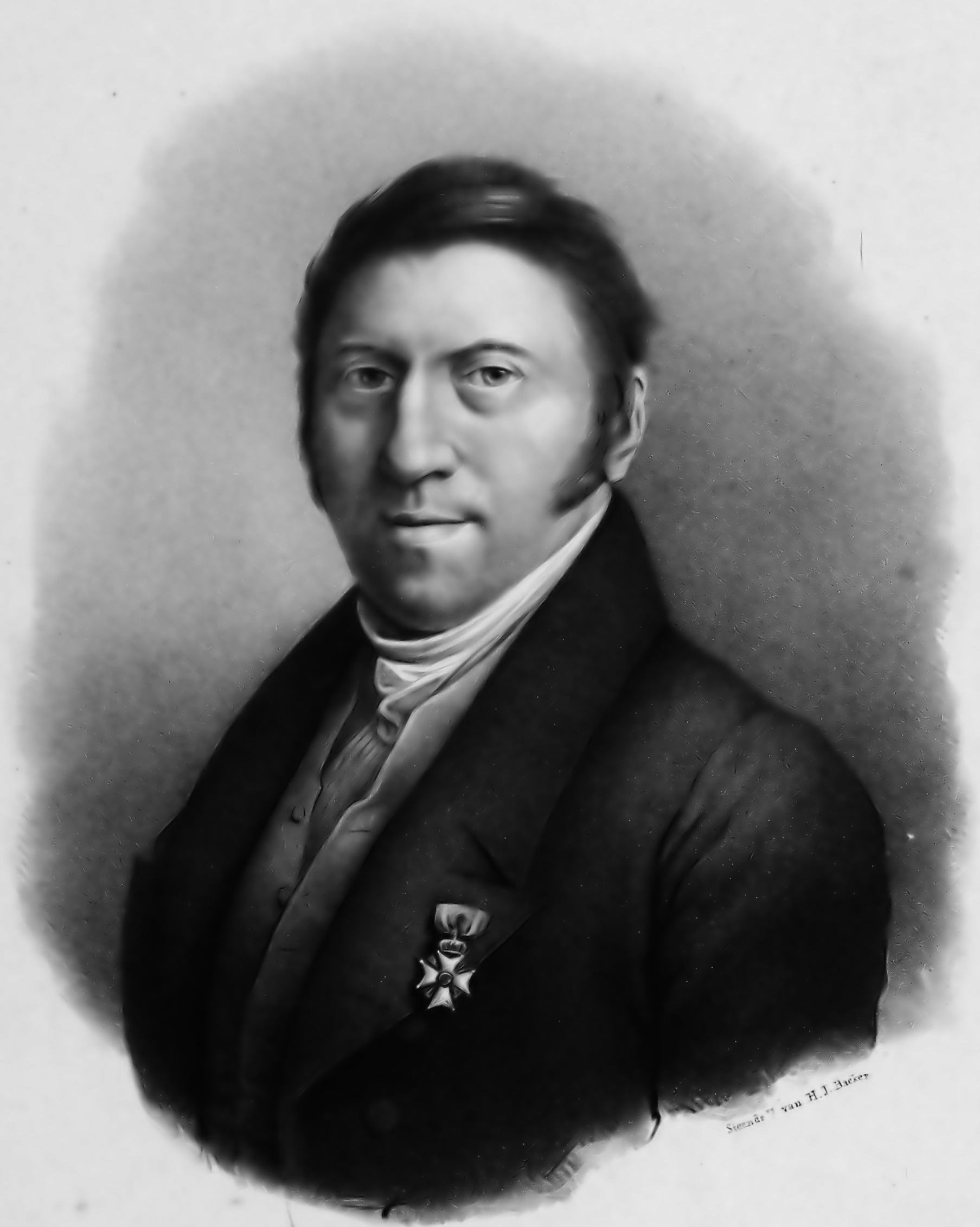 Johannes Christiaan Schotel circa 1840